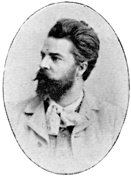 Image scanned from the book "Svenskt Porträttgalleri XX - Arkitekter, Bildhuggare, Målare m.fl. " ("Swedish Portrait Gallery XX - Architects, Sculptors, Painters, ") published 1901